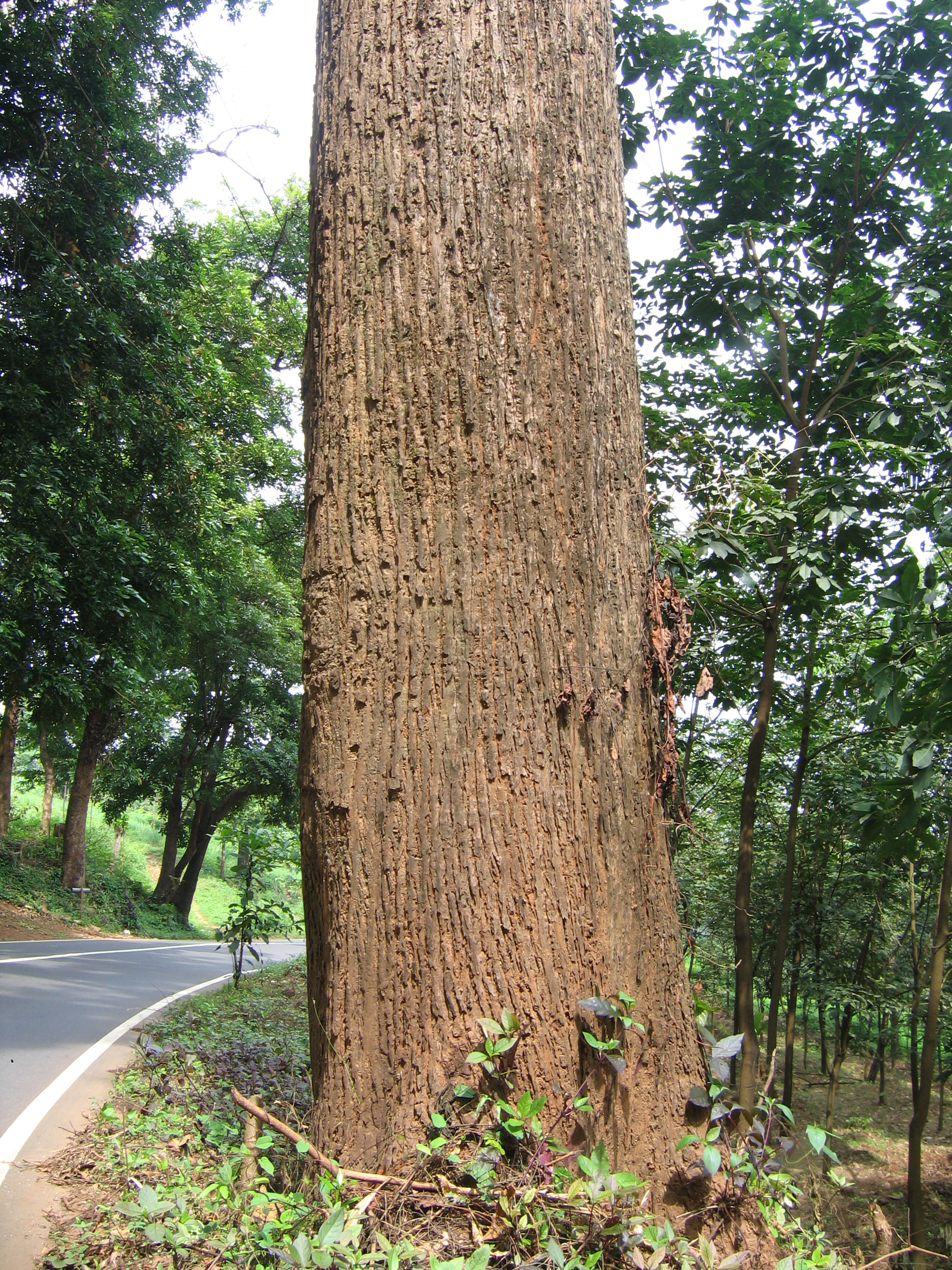 Bombax ceiba bark